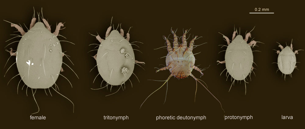 Life stages of Chaetodactylus krombeini (Astigmata); male not shown; individual LT-SEM photos (excluding phoretic deutonymph photo) by Ron Ochoa and Gary Bauchan, USDA-ARS.